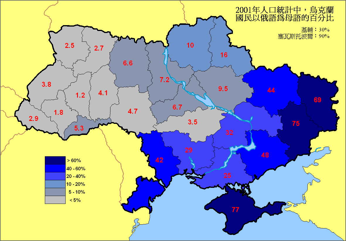 Map of Russian speakers in Ukraine, based on the 2001 Ukrainian census. Original source: Image:Ukraine-Rus-Lang-2001.png and Image:Ruslangsup.PNG.